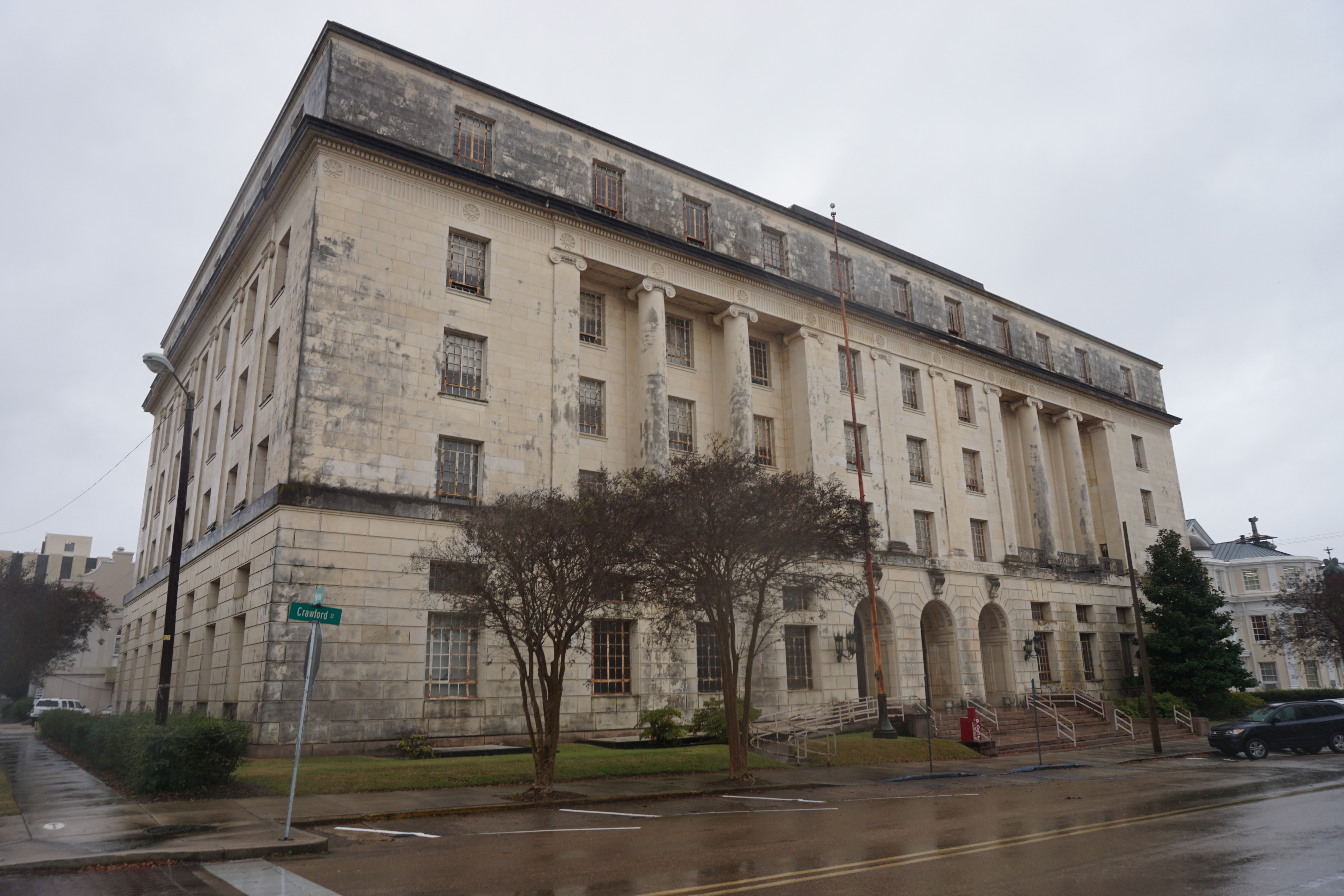 The United States Post Office and Courthouse in Vicksburg, Mississippi (United States).